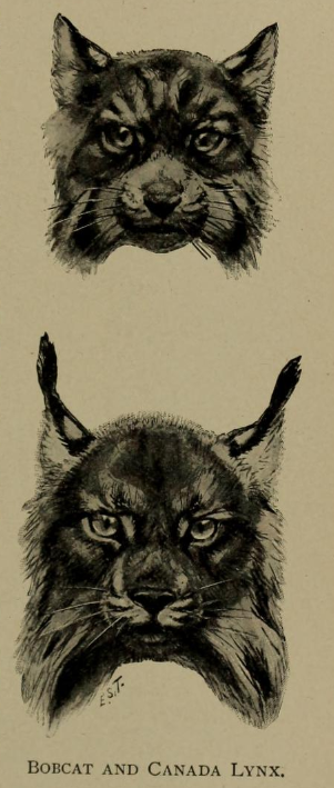 Comparative illustration of bobcat and Canada lynx